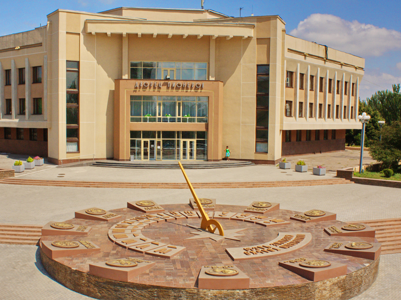 yutyu